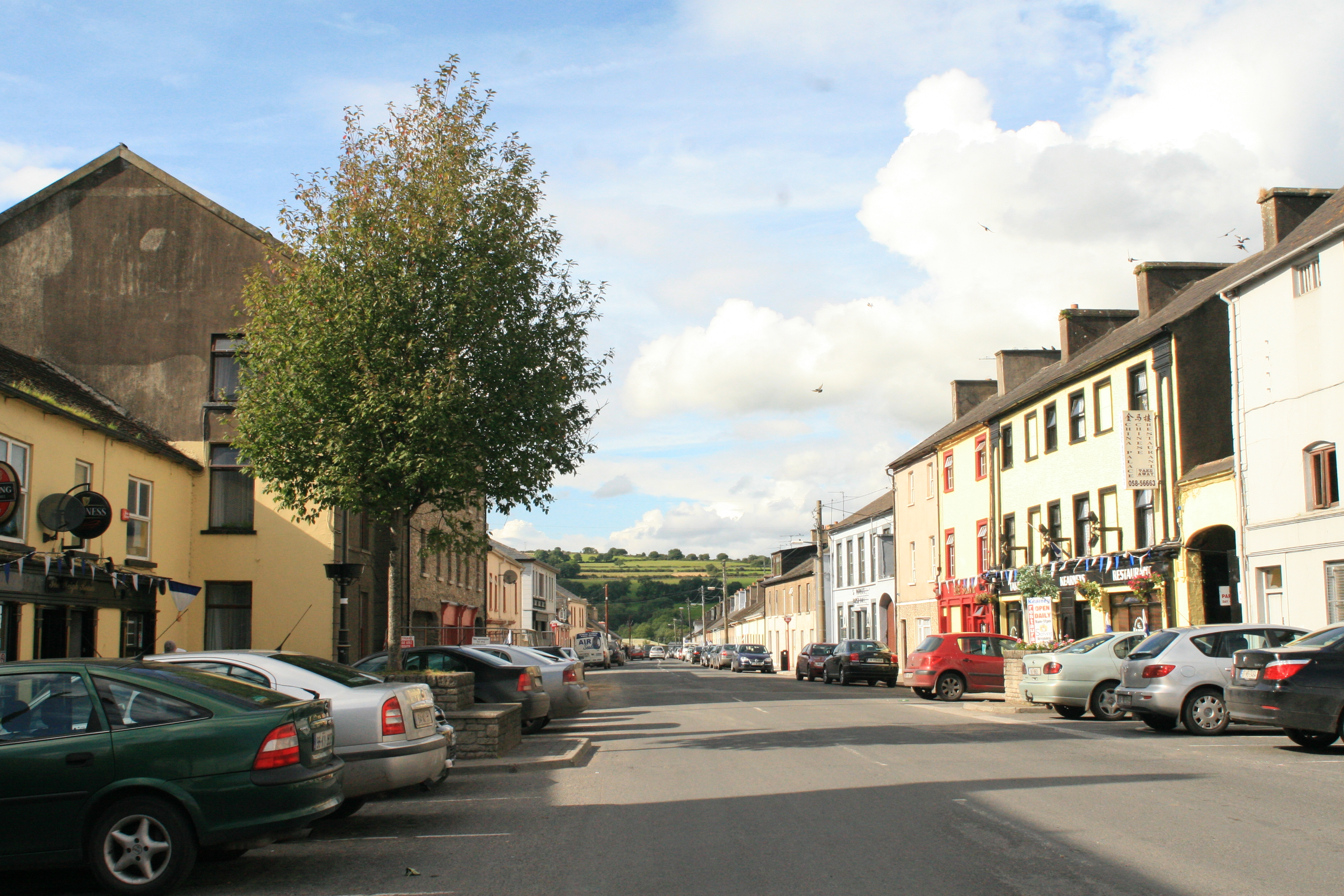 Tallow, County Waterford, Ireland Convent Street as seen from the north